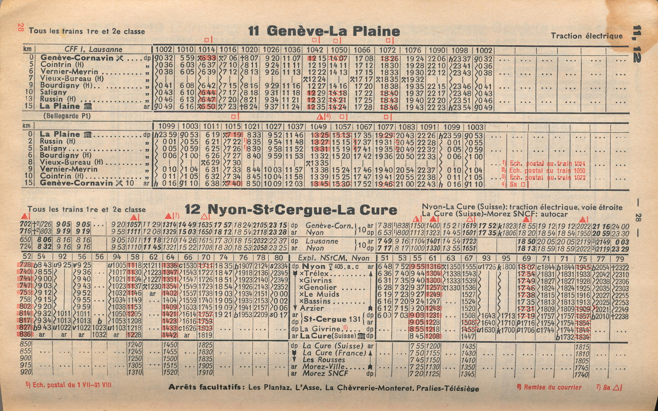 Route tables 11 and 22 of the winter 1963/1964 Swiss official timetable (mail edition): Genève-La Plaine and Nyon-La Cure railways.